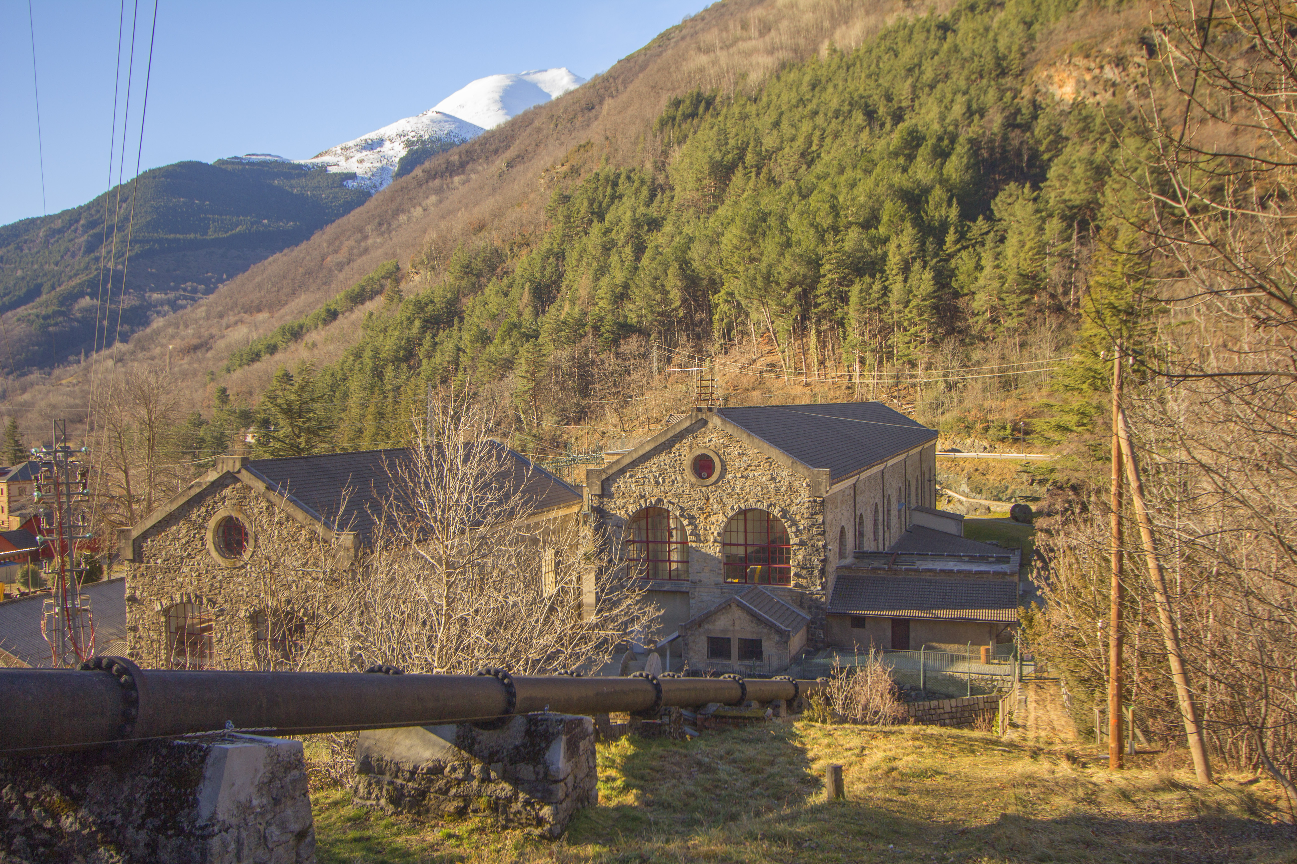 Capdella hydropower plant. Penstocks, main building and workshop (Catalan Pyrenees